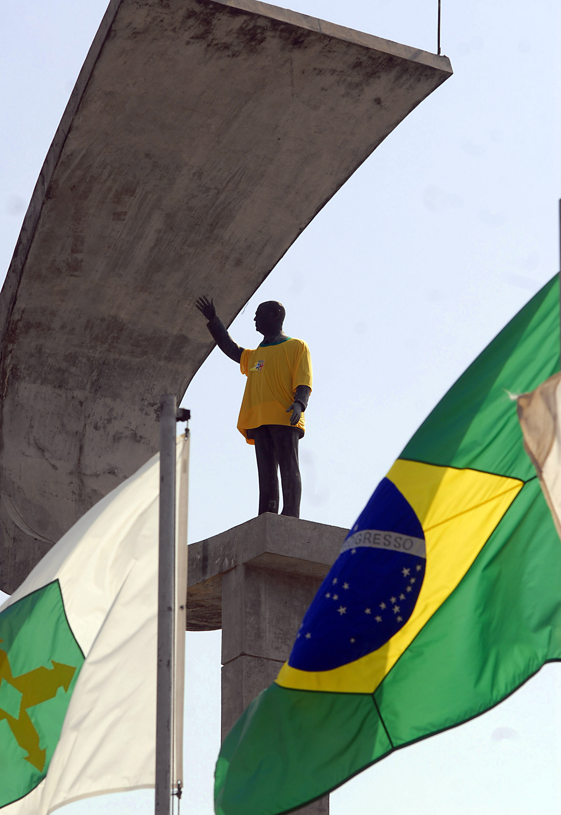 JK statue at Brasilia DF, Brasil, after FIFA's announcement of Brazil as host country to World Cup 2014